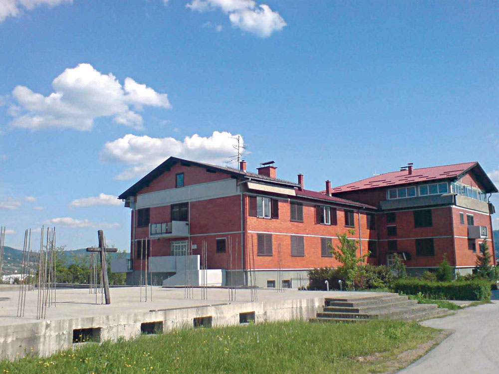 Franciscan monastery in Bosnia and Herzegovina